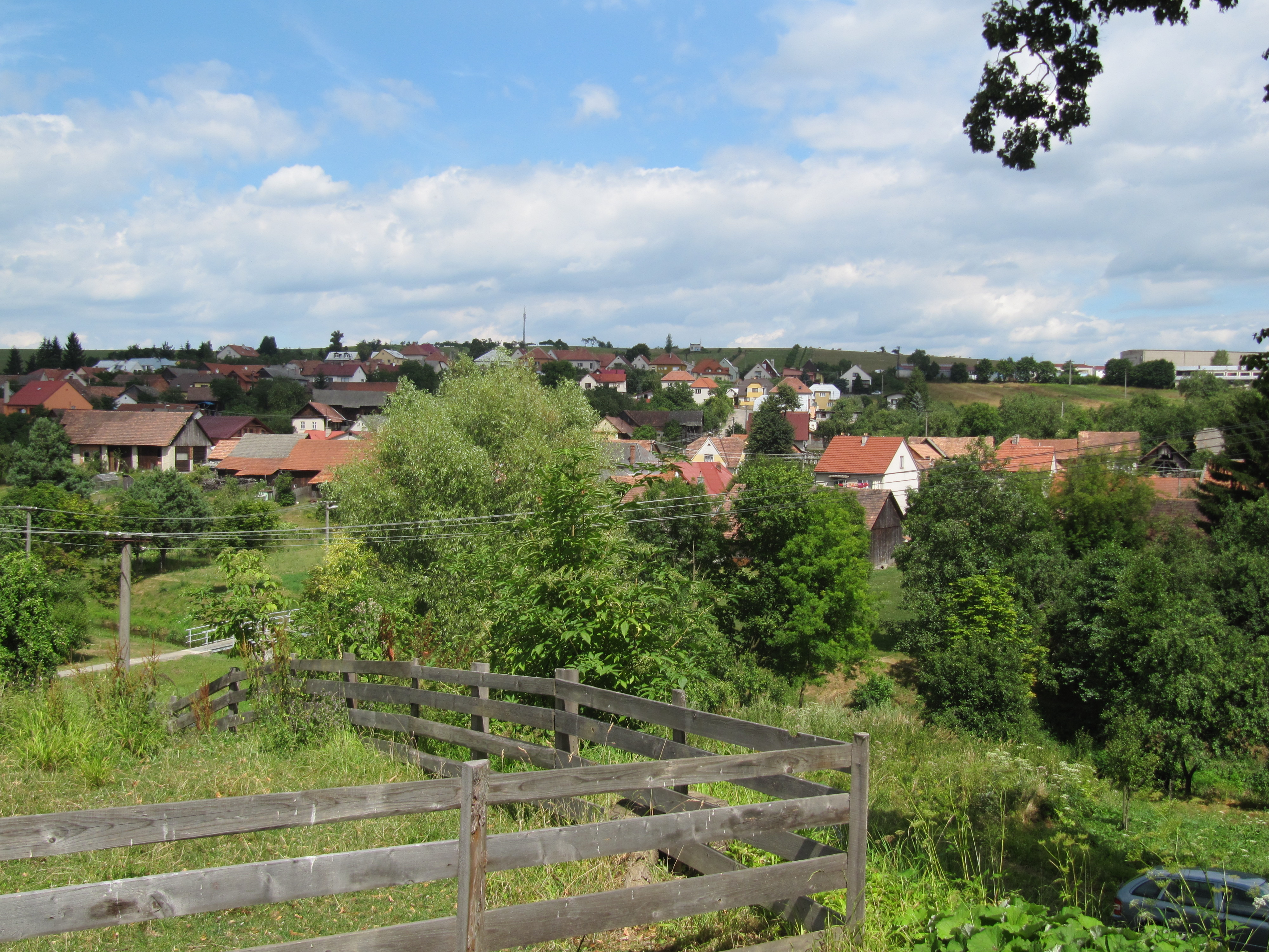 Vlachovice, Zlín District, Czech Republic.